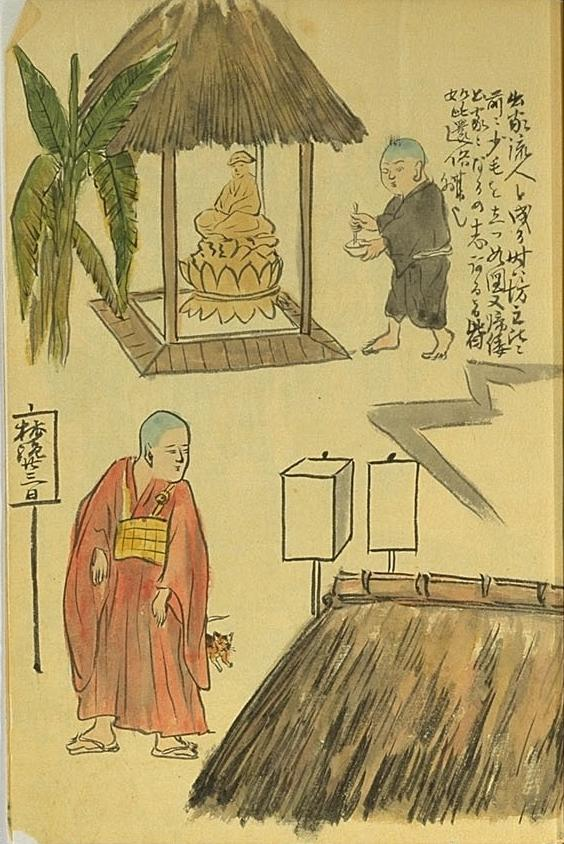 Traditional clothes of Ryukyu